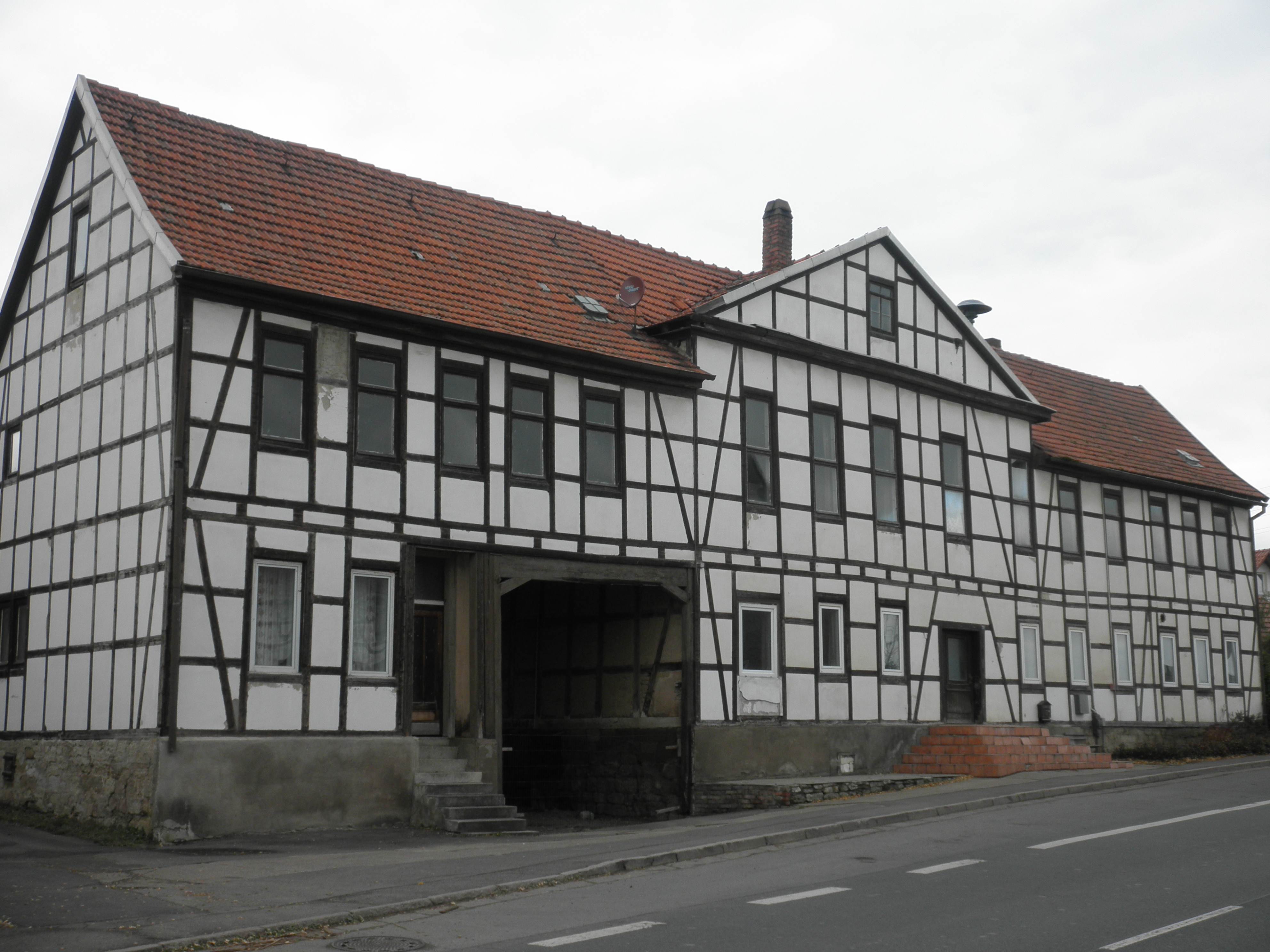 Timbered House in Billeben (Abtsbessingen) in Thuringia